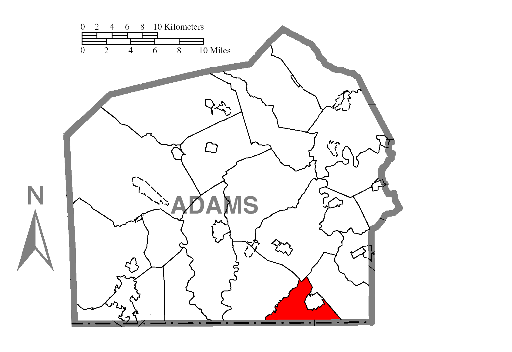 A map of Adams County showing Germany Township, Pennsylvania (alternate) highlighted on the map.